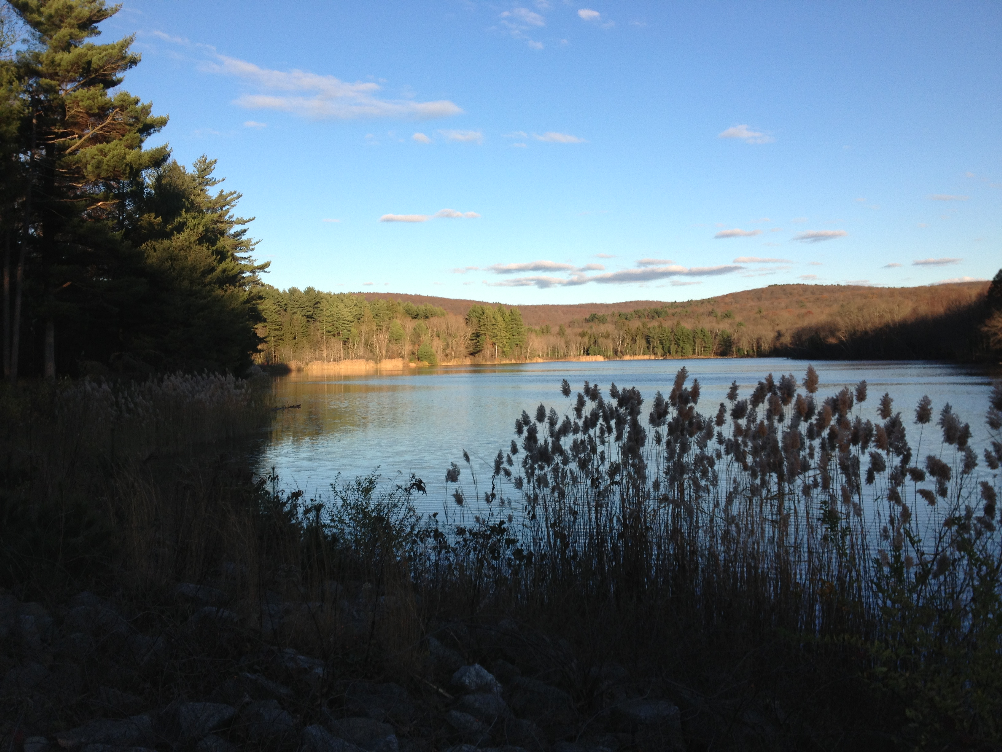 Portland Reservoir, Reeves Lookout State Wildlife Area, Meshomasic State Forest, Portland, Connecticut, United States of America